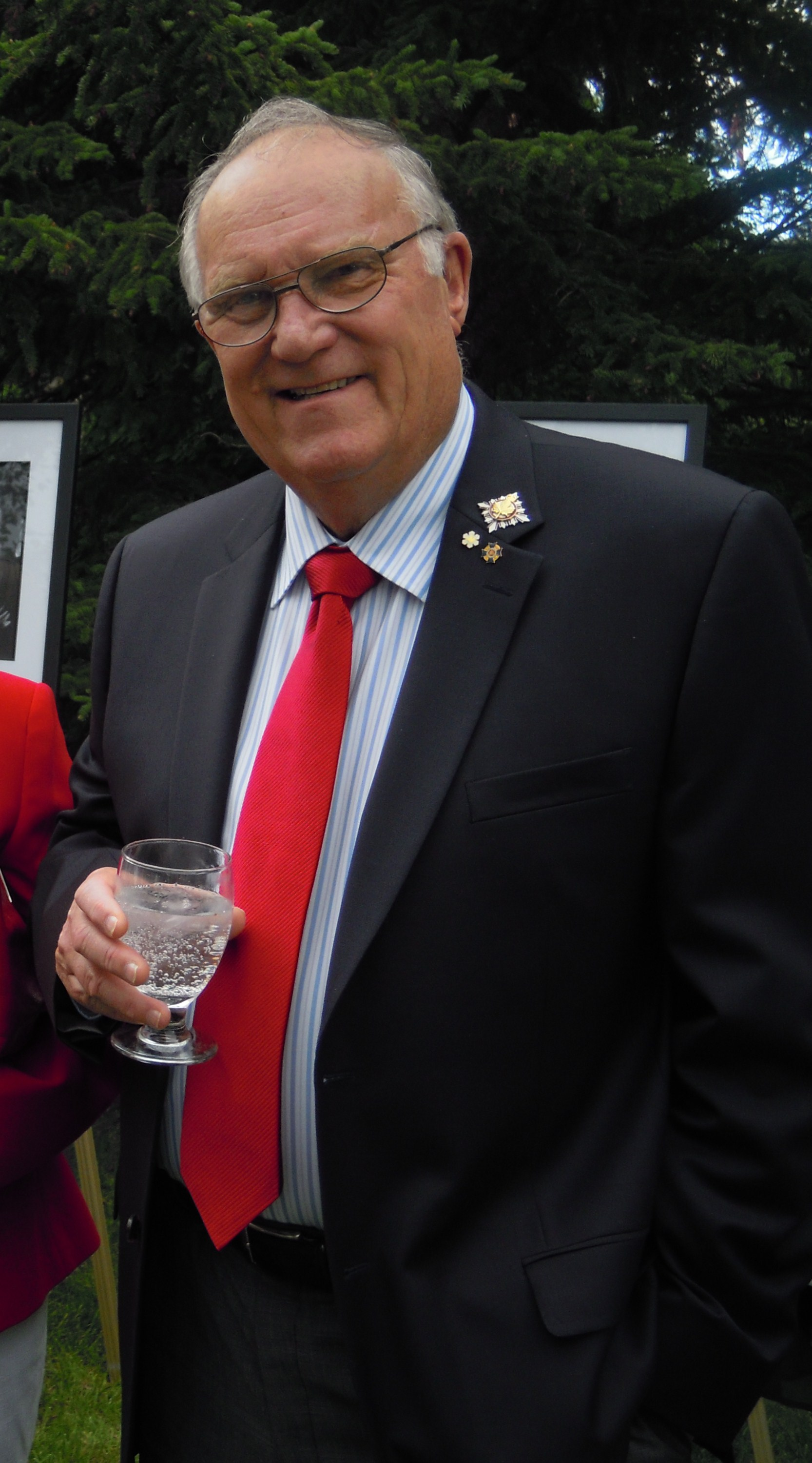 Alberta Lieutenant Governor, Colonel Donald Ethell